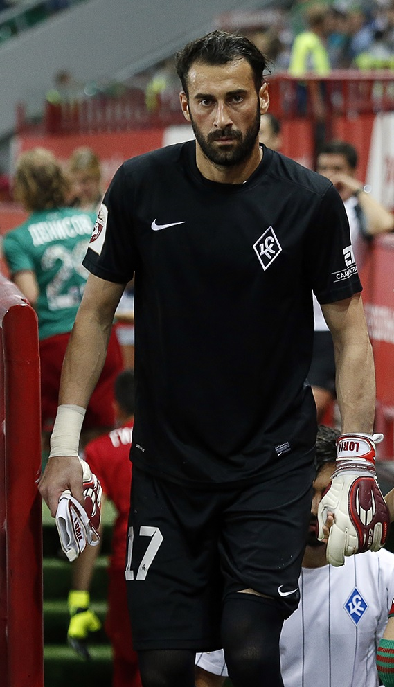 Giorgi Loria with FC Krylia Sovetov Samara before the game against FC Lokomotiv Moscow.